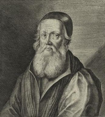 Portrait of Archbishop of Canterbury Edmund Grindal was taken from a 19th Century text and was in turn a reproduction of a contemporary (16th Century) image.